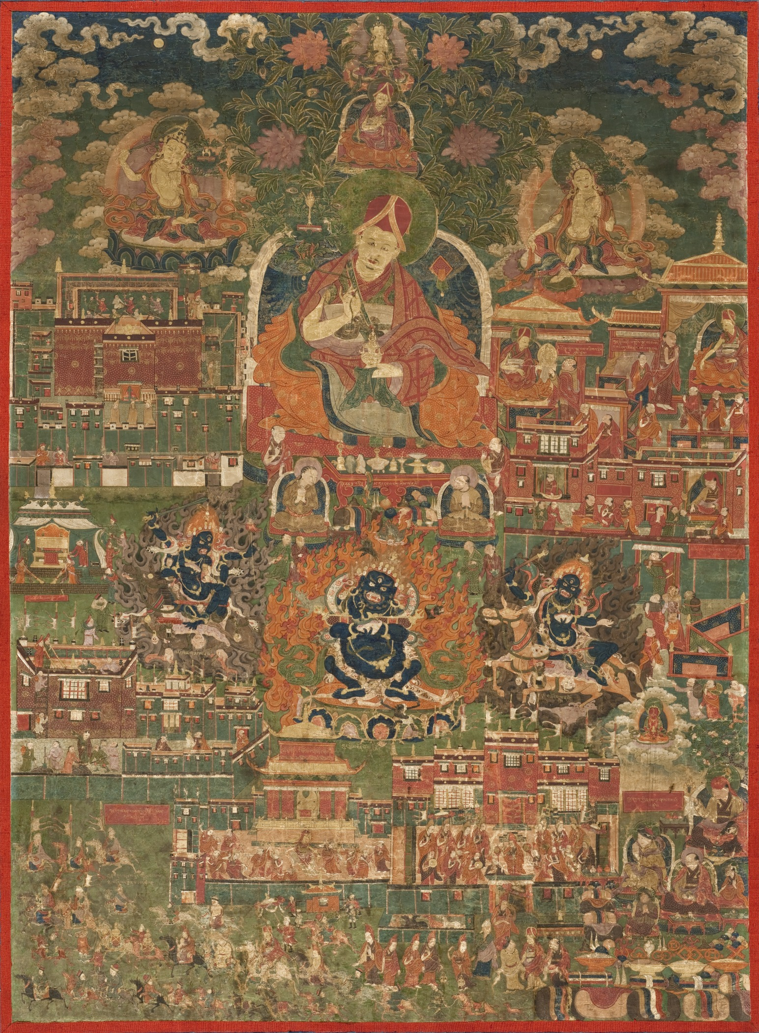 Central Tibet, a Sakyapa Monastery, circa 1700 Paintings Mineral pigments and gold on cotton cloth From the Nasli and Alice Heeramaneck Collection, Museum Associates Purchase (M.83.105.16) South and Southeast Asian Art